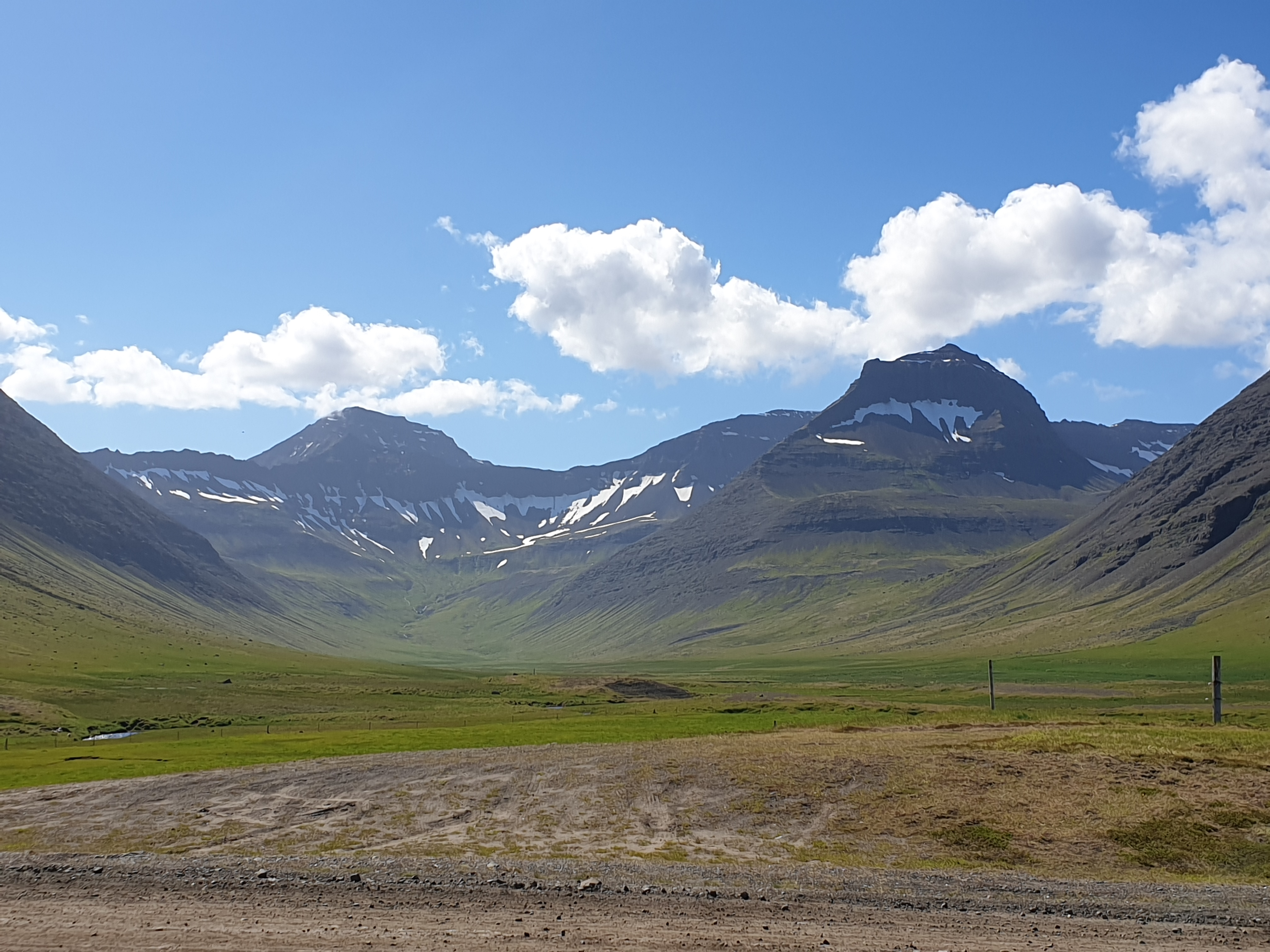 Haukadalur & Kaldbakur